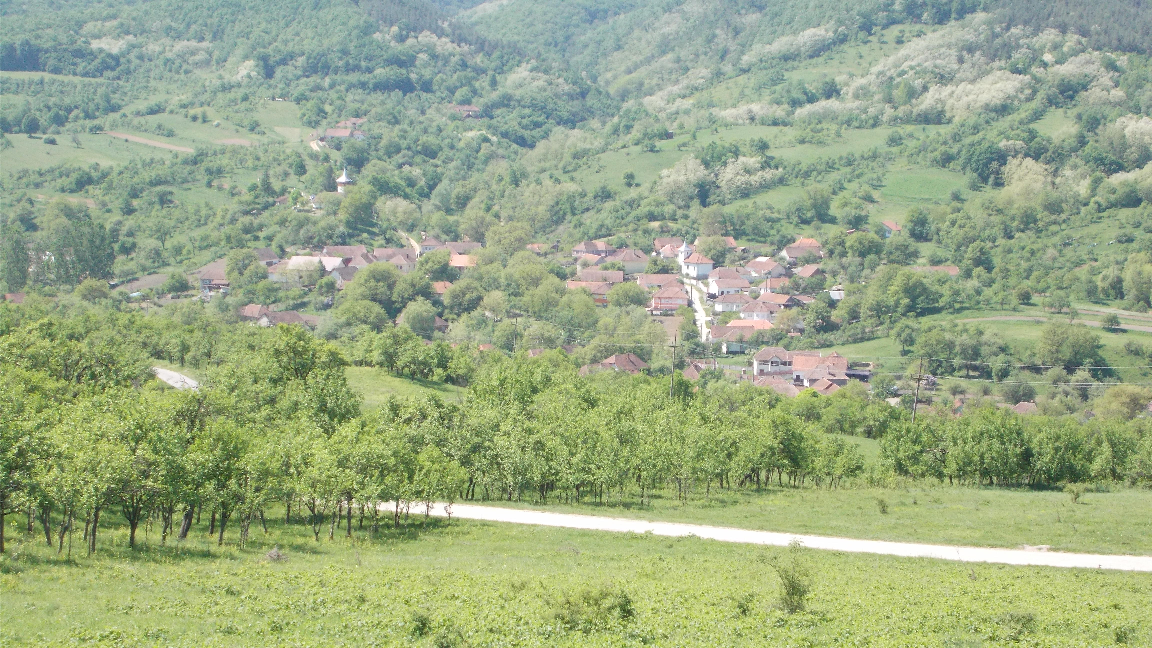 Izvoarele, Hunedoara County, Romania